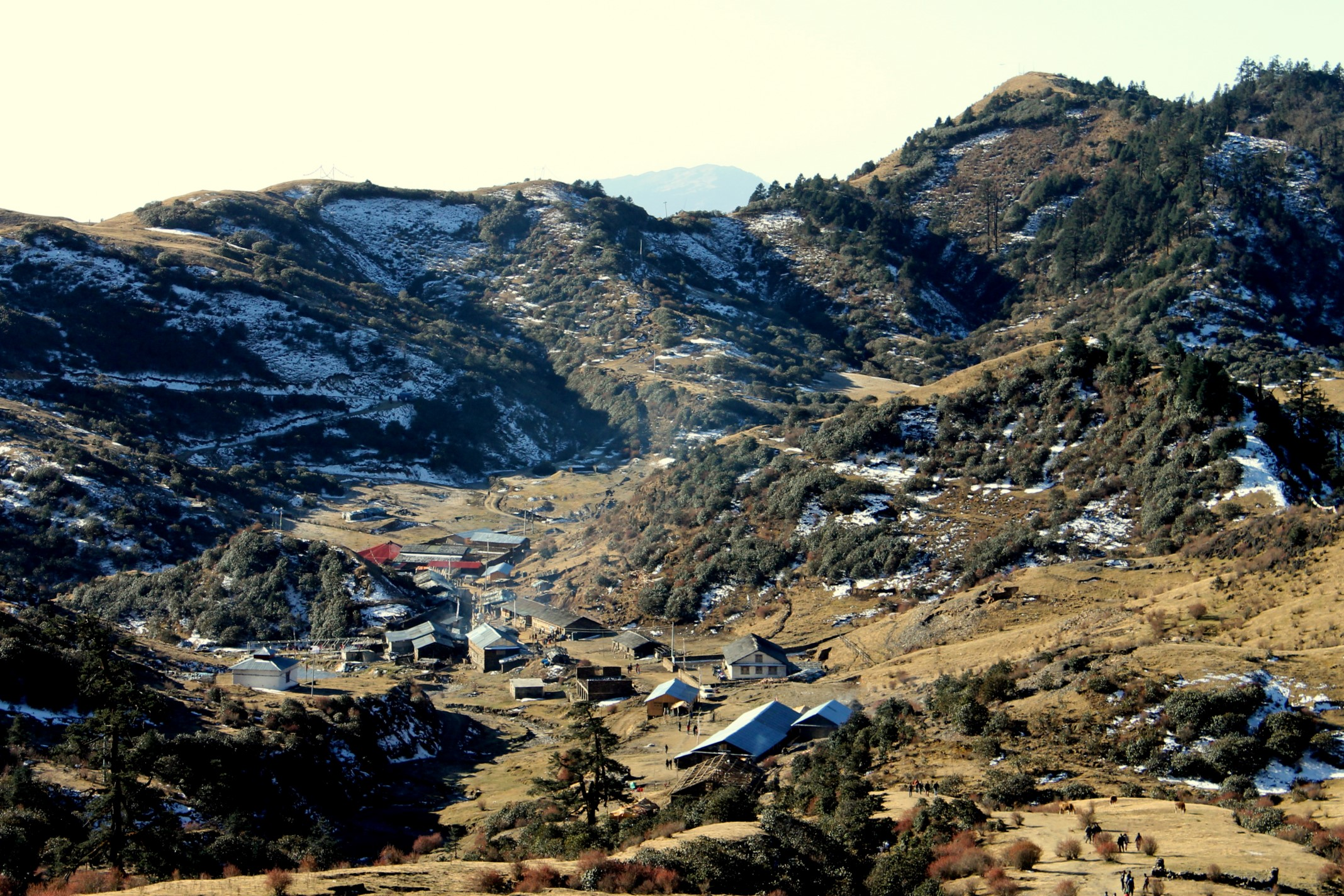 Kuri Bazzar